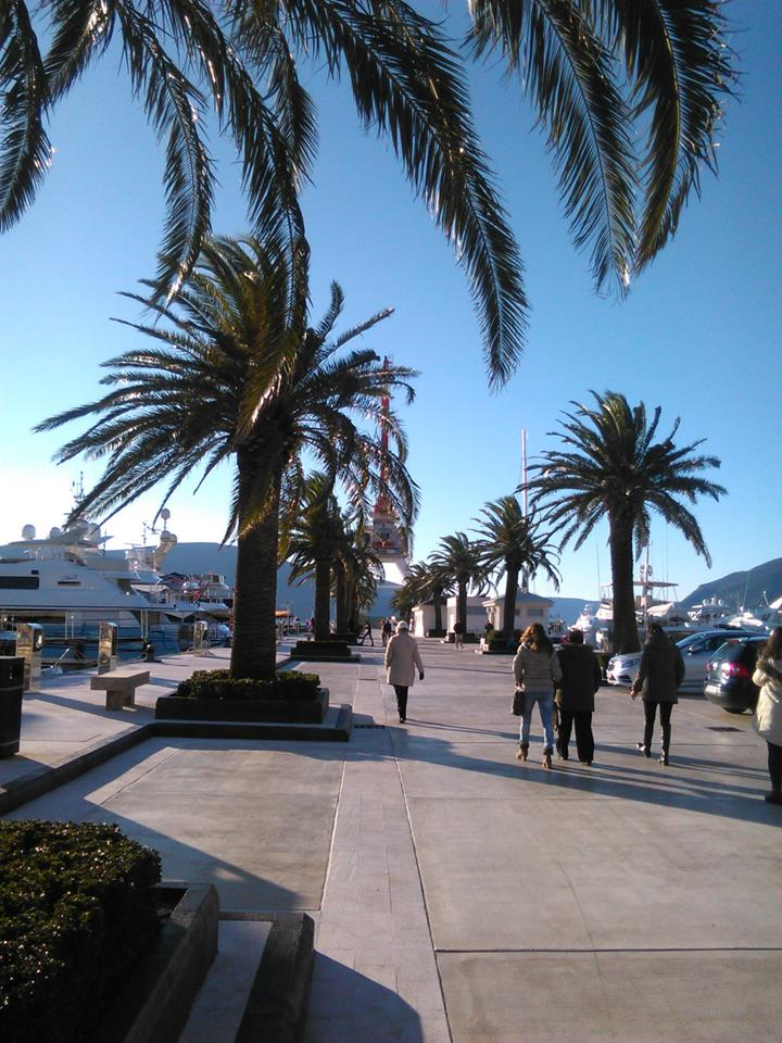 Tivat - Porto Montenegro